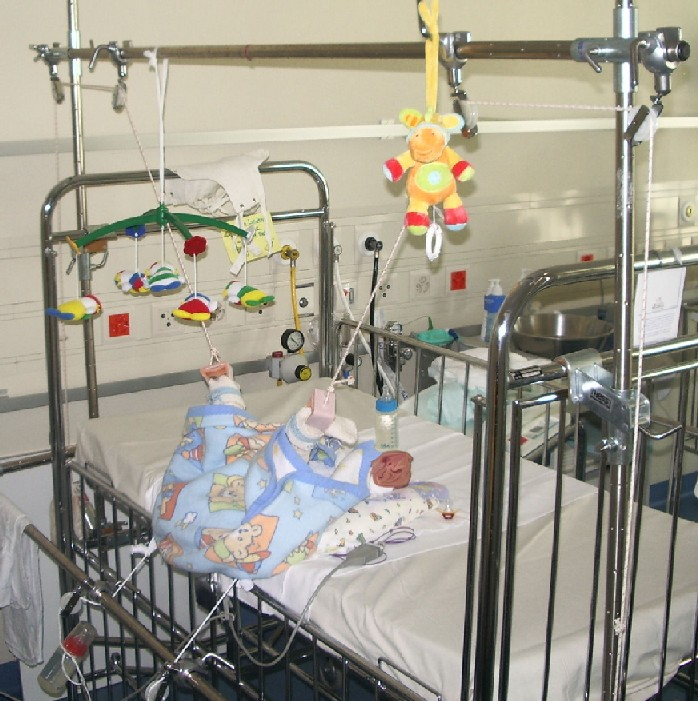 A form of treatment for Hip dysplasia